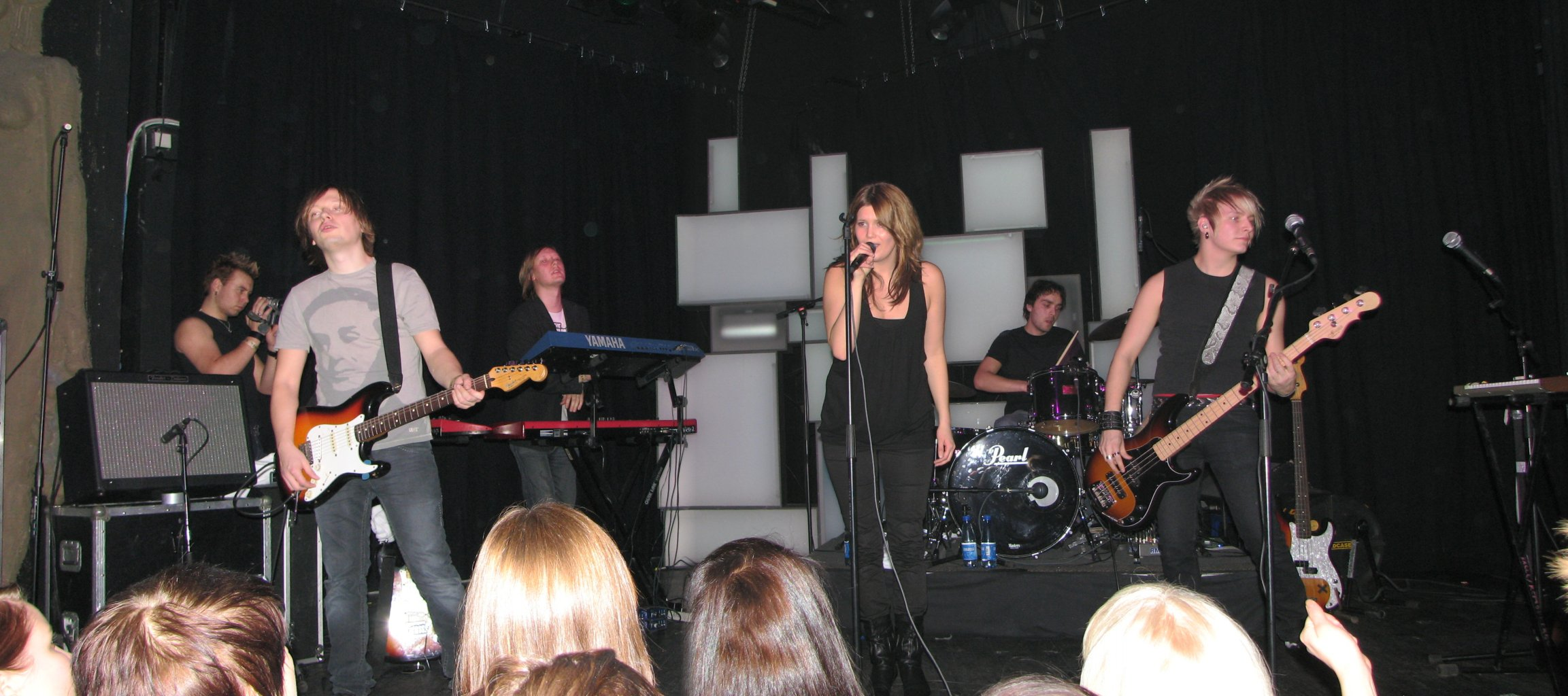 Kemopetrol performing at Virgin Oil Co., Helsinki, Finland on 20th January 2007. Band members from left: Marko Soukka (guitar), Kalle Koivisto (keyboards), Laura Närhi (vocals), Teemu Nordman (drums), Lauri Hämäläinen (bass, background vocals). Picture taken by Jaakko Mäntymaa, with permission of the band.